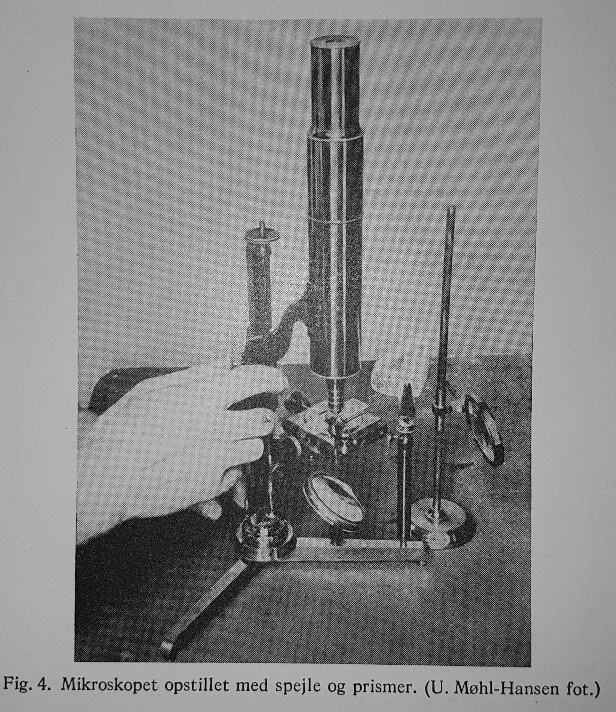 MIcroscope used on the first Galathea Expedition 1845-47.